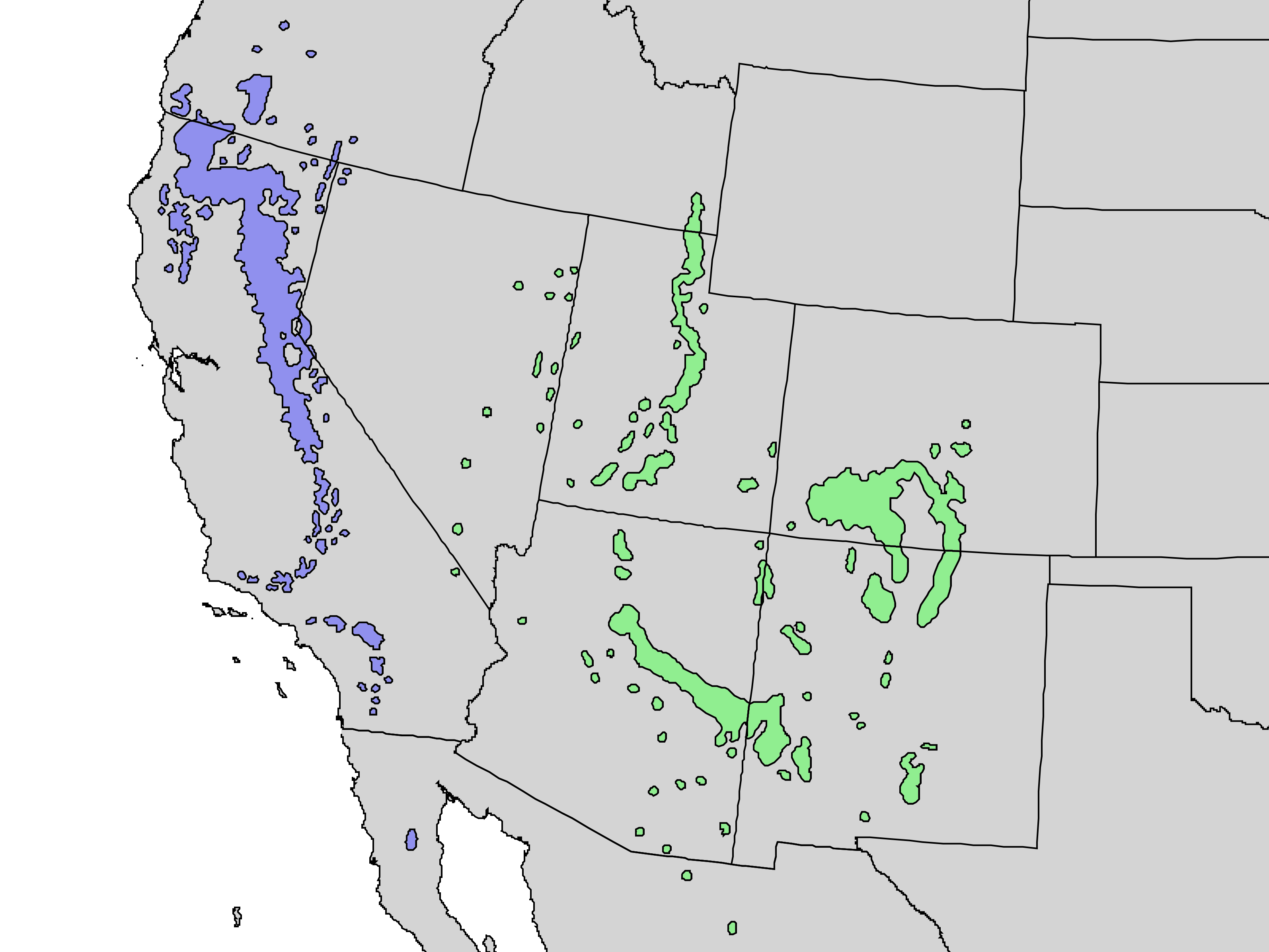 Distribution map for Abies concolor (Gord. & Glend.) Lindl. ex Hildebr. (White Fir). Green = Abies concolor subsp. concolor. Blue = Abies concolor subsp. lowiana.